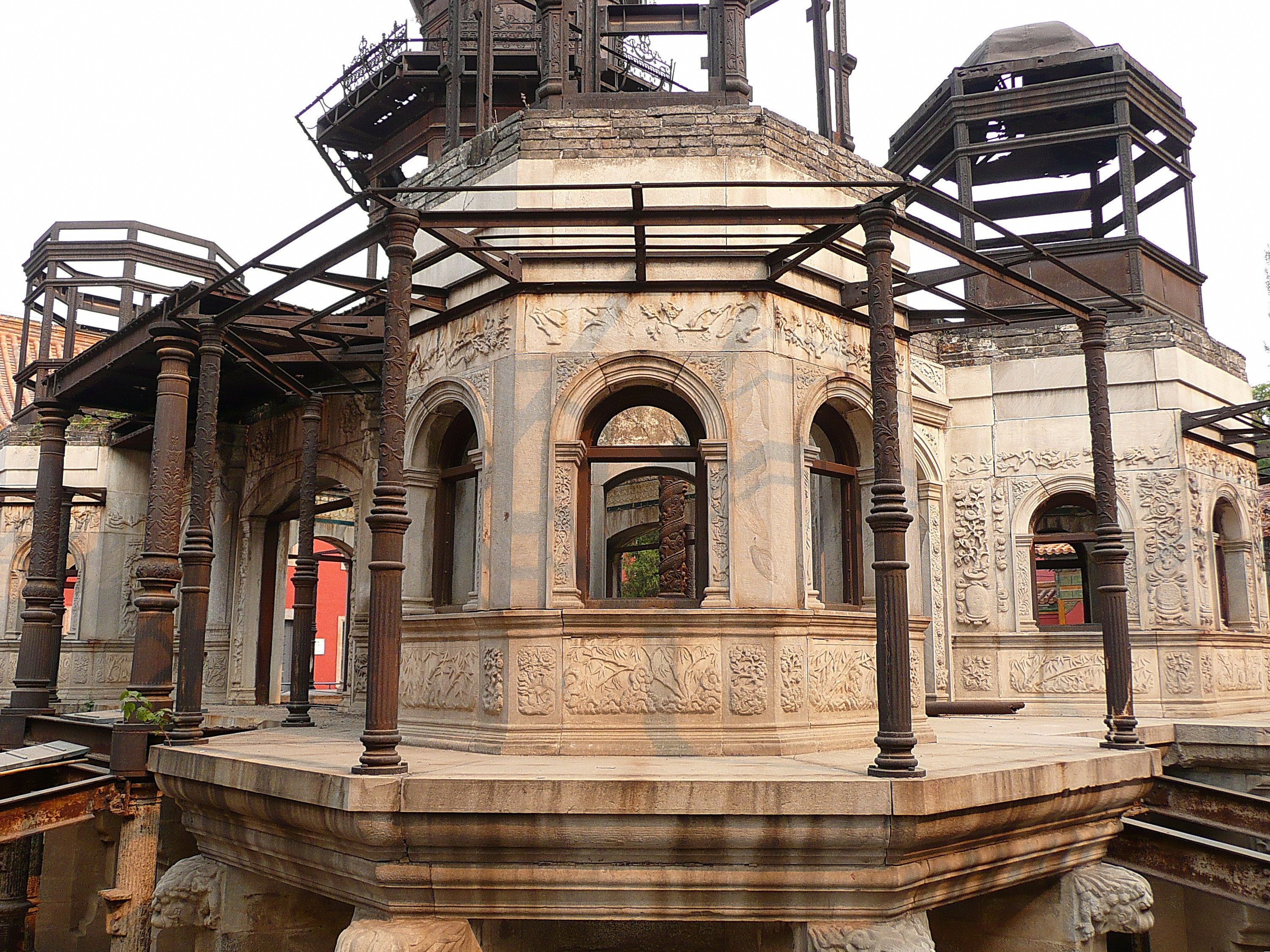 Lingzhao Pavilion in the Forbidden City 故宮靈沼軒